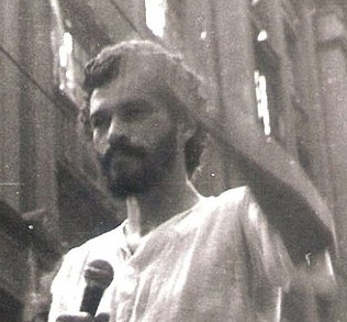 Sócrates 1984. Cropped from Socrates (futebolista) participando do movimento político Diretas Já.jpg